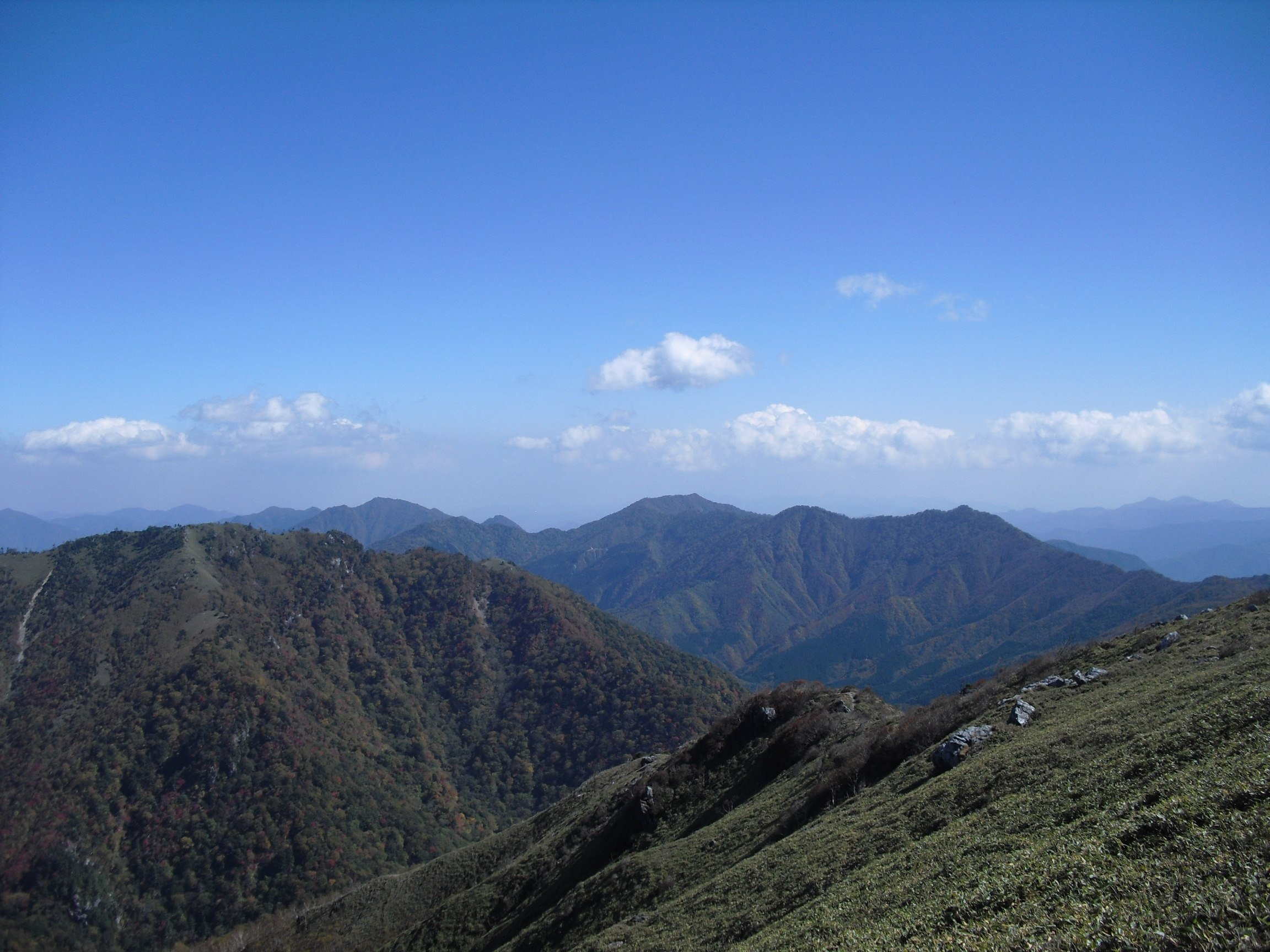 Looking the ESE from Mount Jirogyu in Shikoku Maountains, Japan. Mount Yarito on the left. Mount Kanba and Mount Gonda and Mount Nakauchi and Mount Ouridani's ridge in the background right.